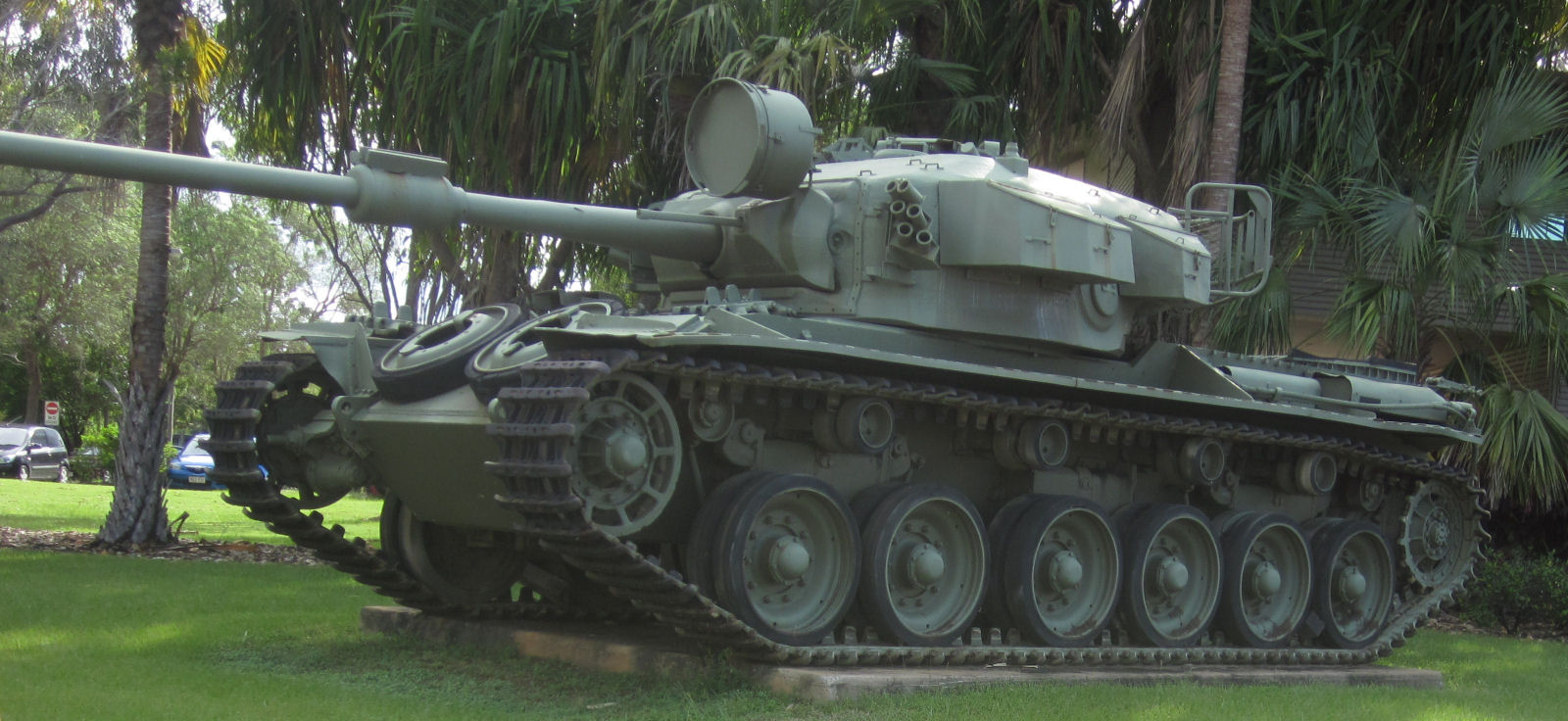 Cropped version of File:Tank at Robertson Barracks - panoramio.jpg